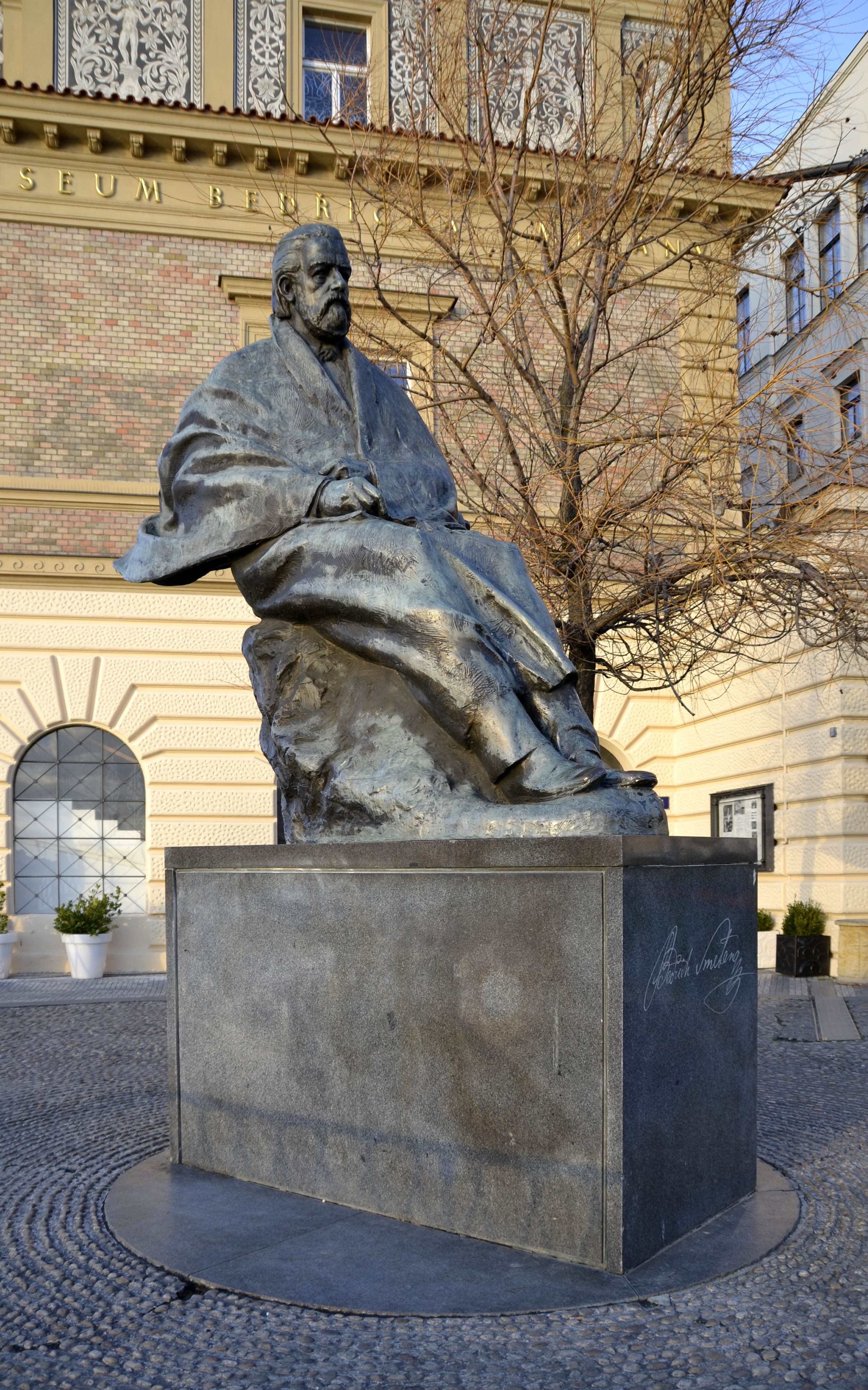 The Bedřich Smetana monument in front of the Bedřich Smetana Museum in Prague.